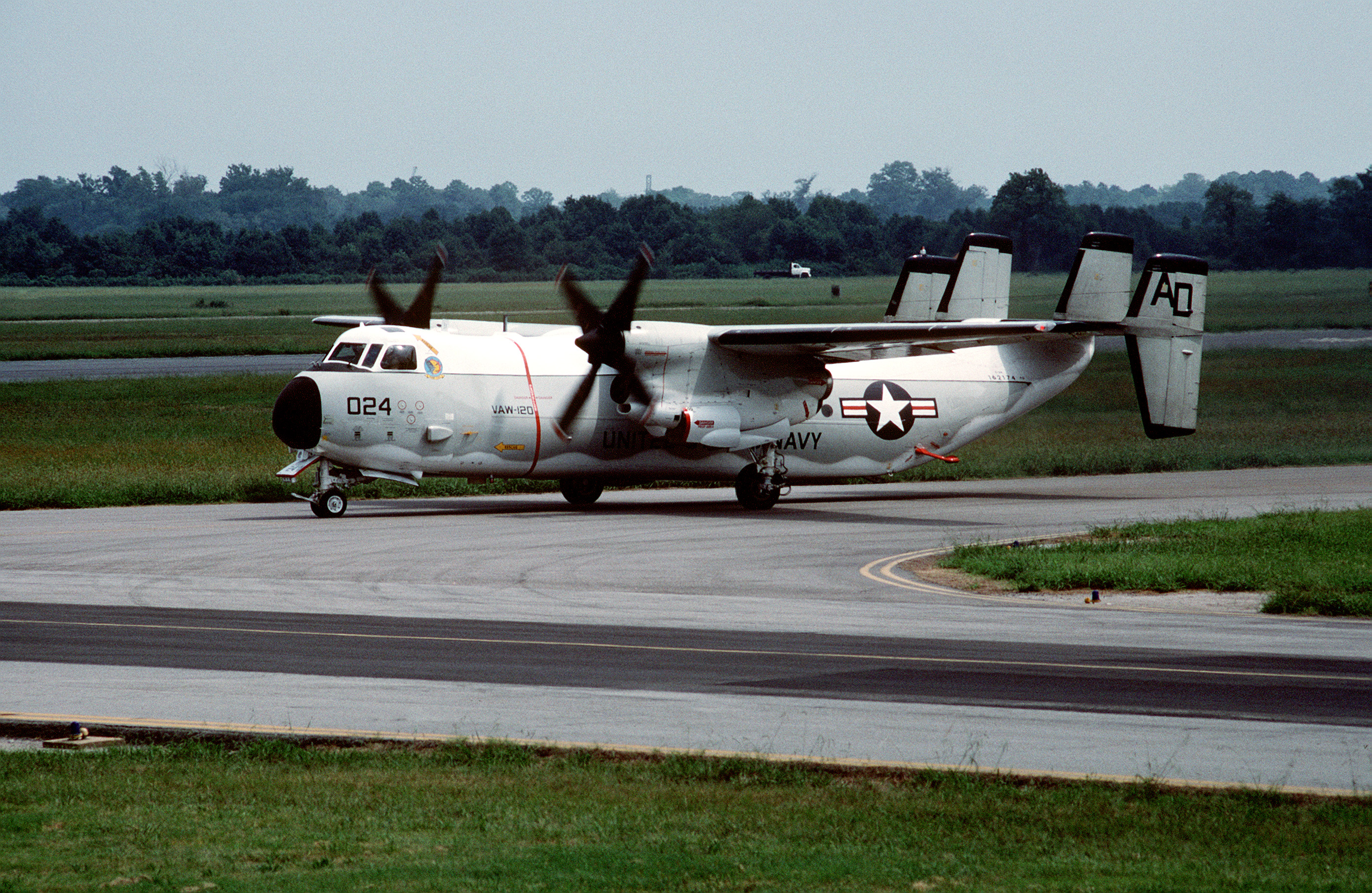 A U.S. Navy Grumman C-2A Greyhound (BuNo 162174) from airborne early warning squadron VAW-120 Greyhawks at the Naval Air Station Oceana, Virginia (USA), on 1 August 1989. VAW-120 is a training squadron for E-2 crews.